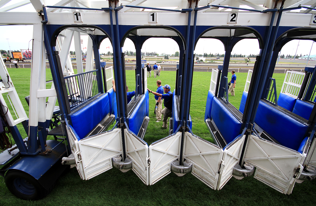 A starting gate used at Woodbine Racetrack, Toronto, Ontario. Photographed by Mike F. Campbell 76wins.